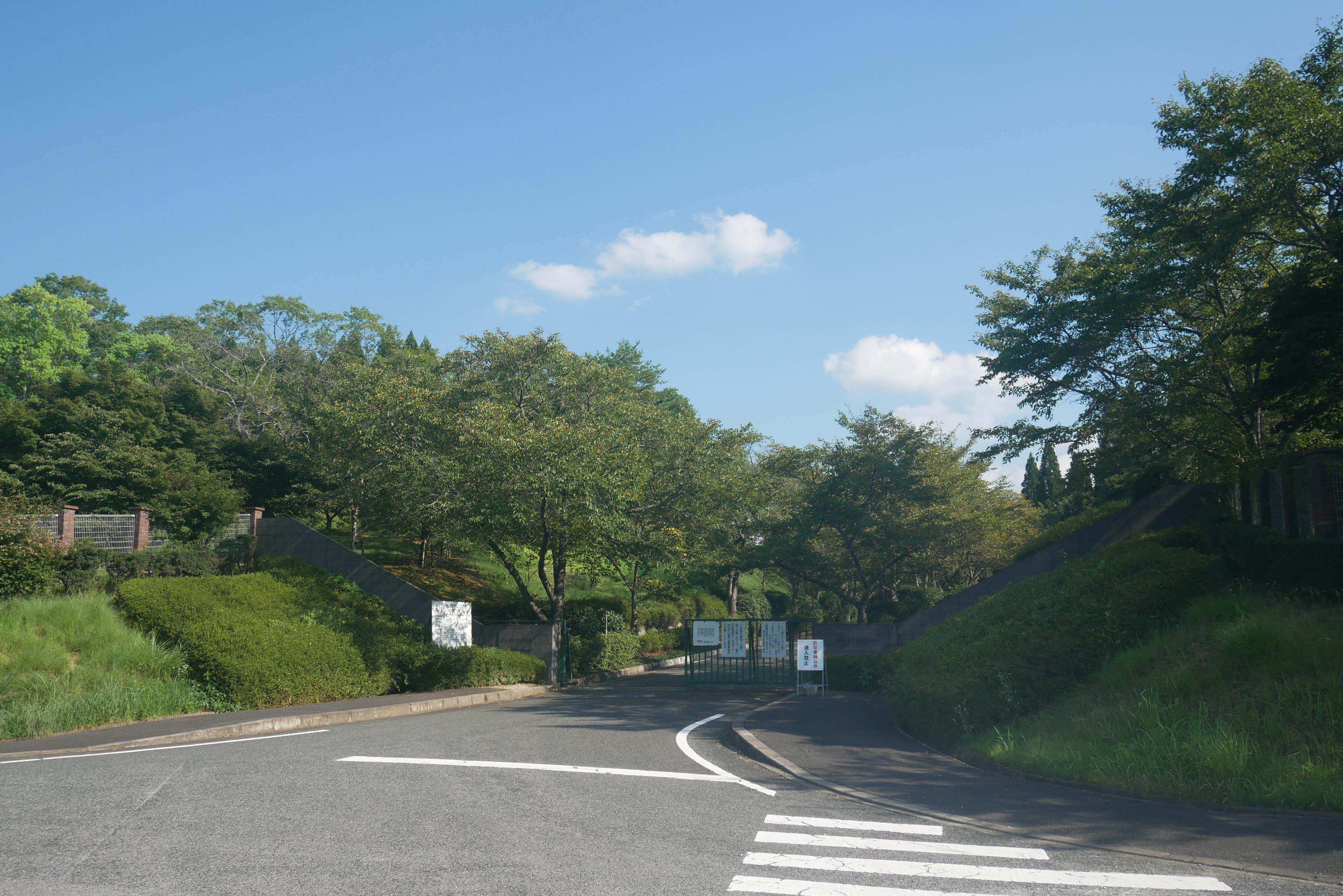 Wakunaga Manji Memorial Garden Panasonic Lumix DMC-GX7 Mark II